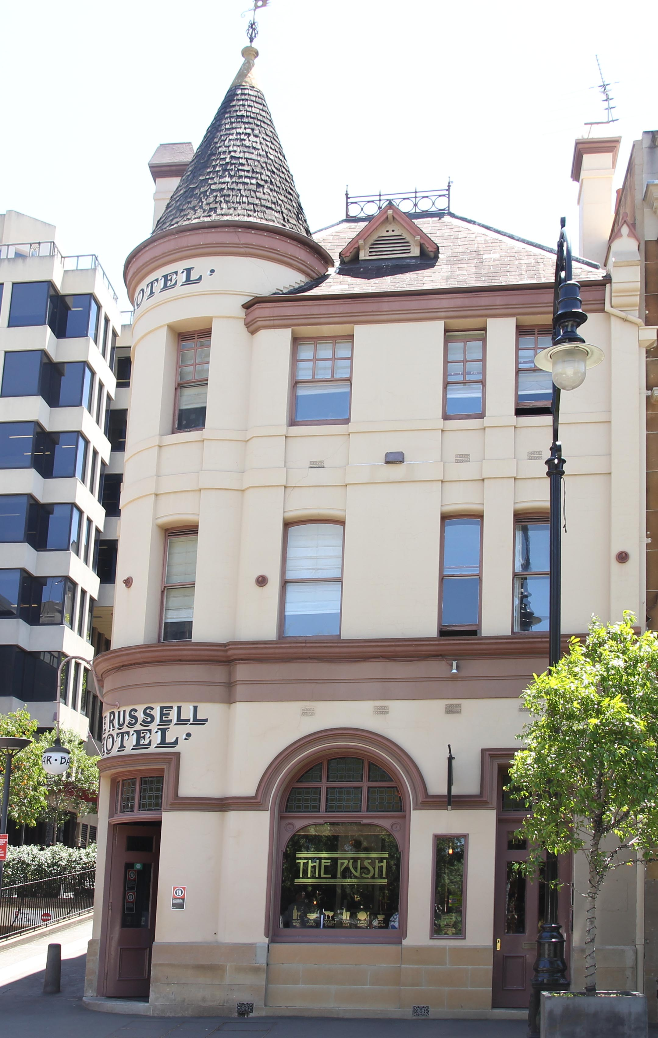 Russell Hotel, The Rocks, in the City of Sydney, New South Wales, Australia